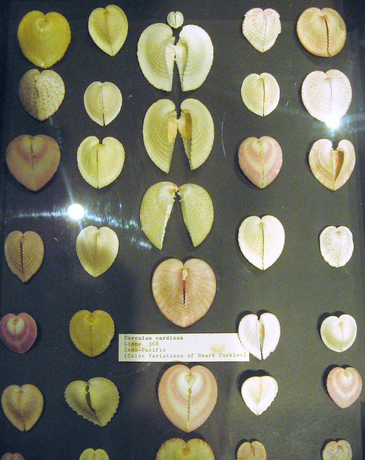 Shells